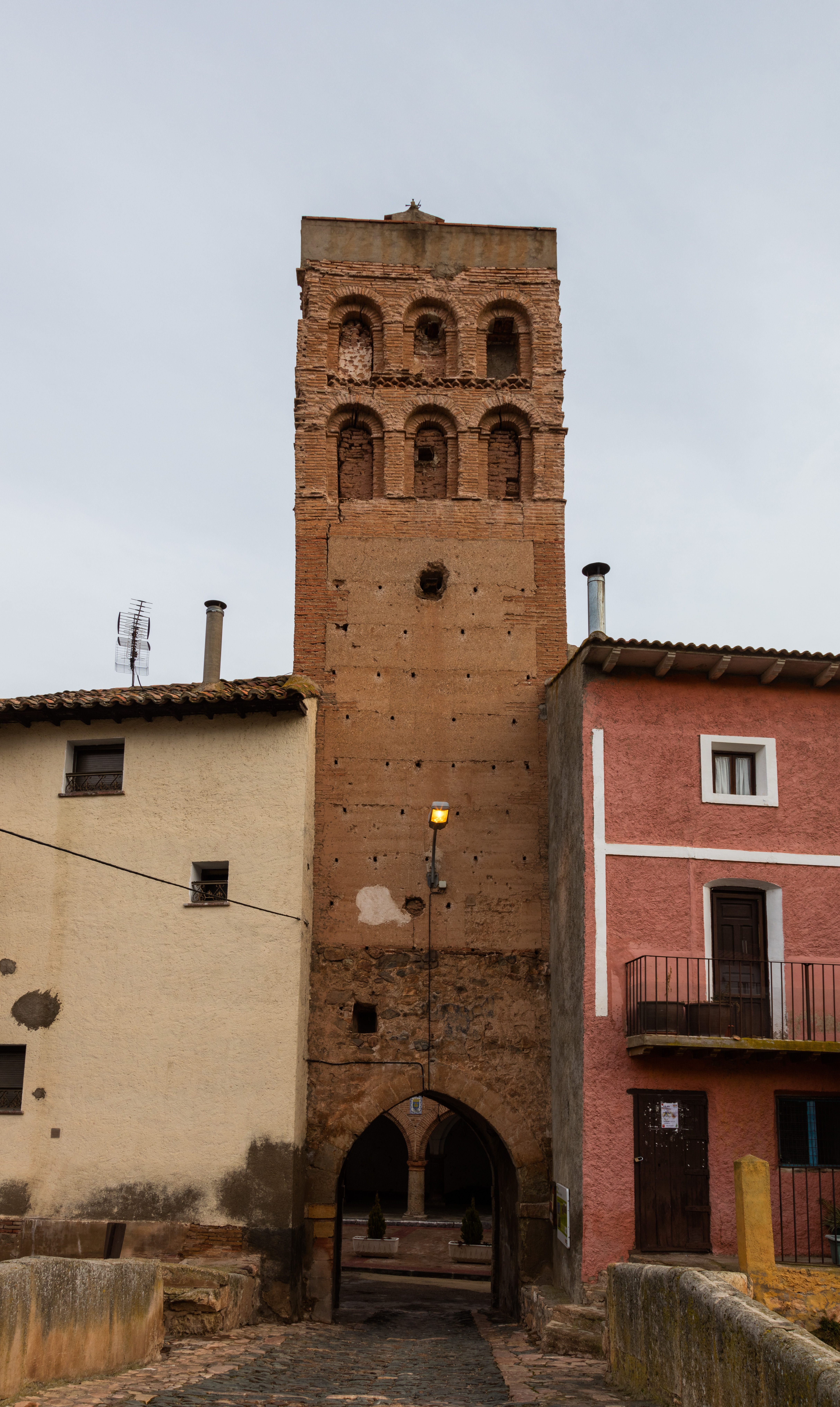 Tower of the city wall, Torrijo de la Cañada, Zaragoza, Spain